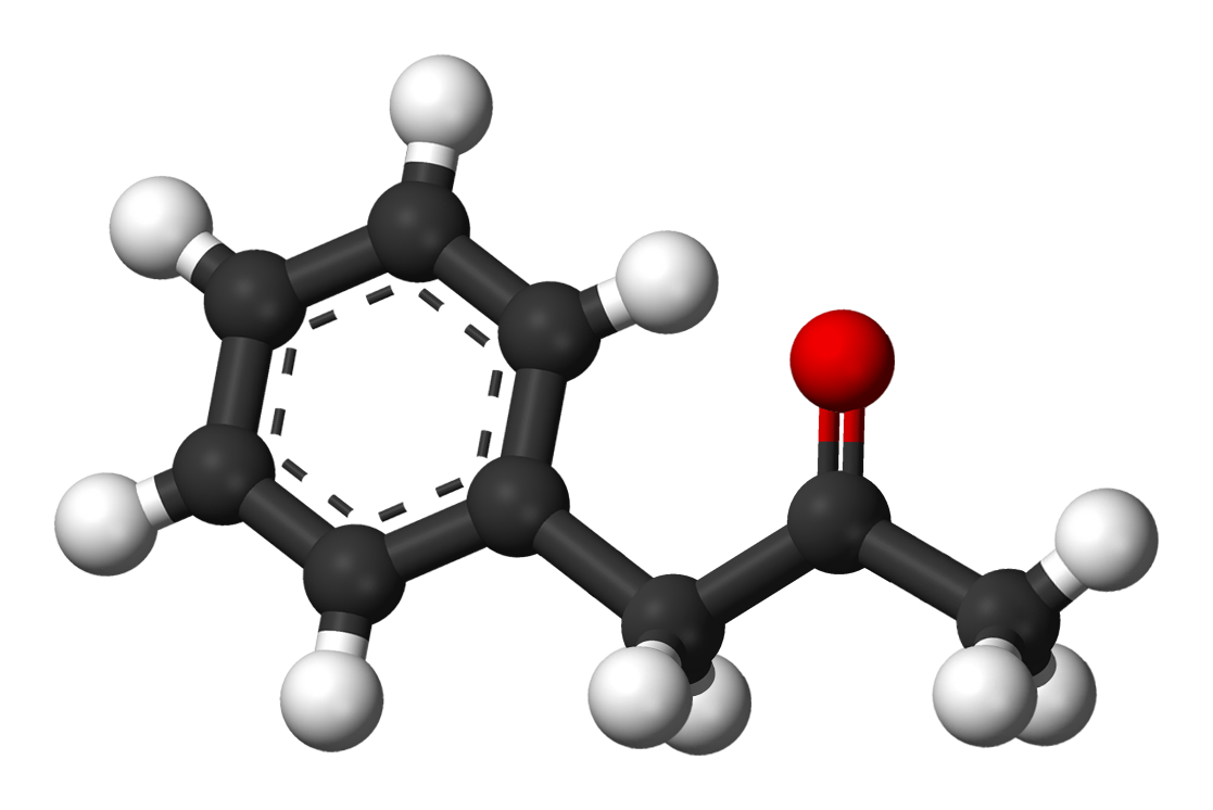 Ball-and-stick model of the phenylacetone molecule, a ketone with illicit uses in the manufacture of methamphetamine and amphetamine.